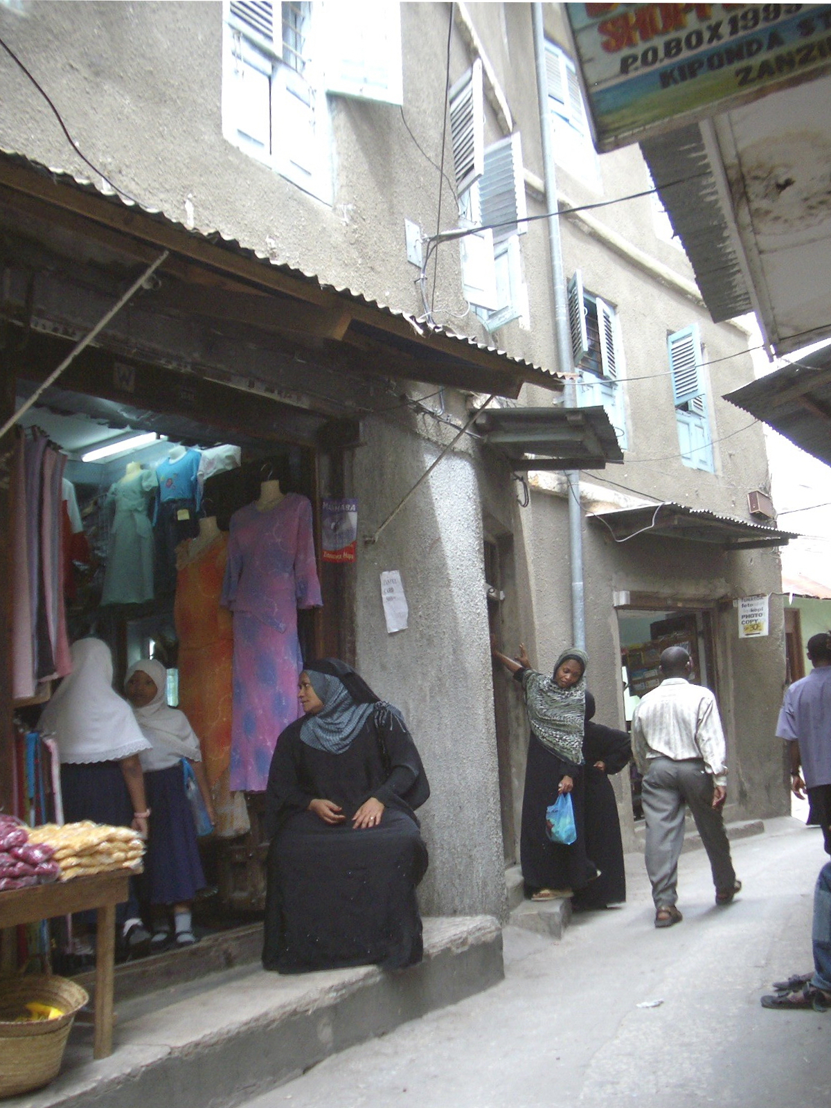 Zanzibar, Old Town